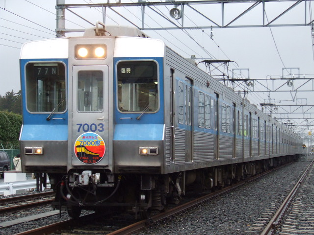 Model 7000-Goodbye Running-,Hokuso Railway,Japan 25,March 2007 Lover of Romance take a photograph.